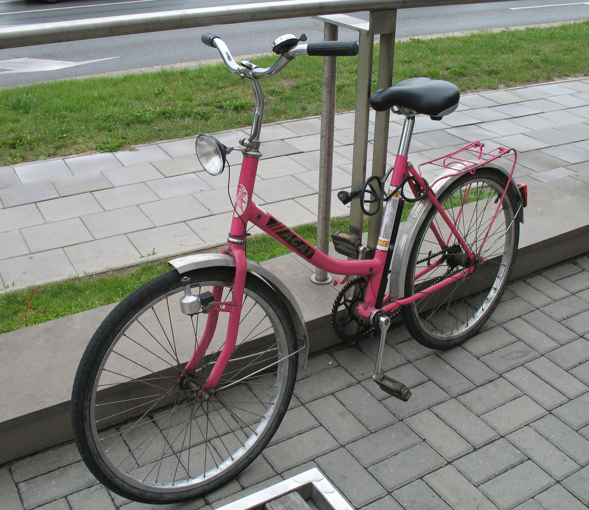 Romet Agat bicycle in Kraków, Poland.